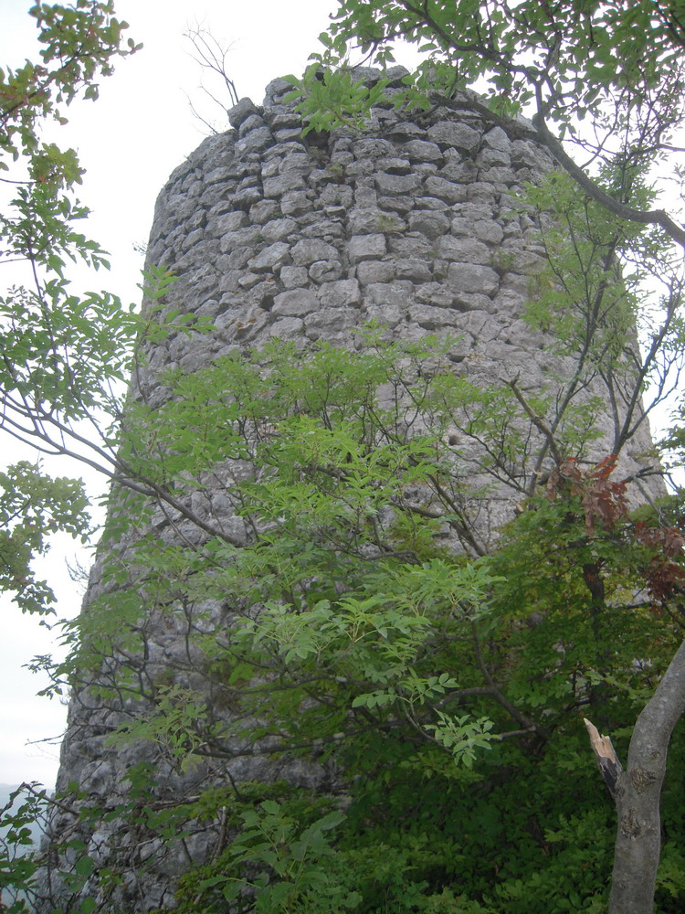 Greben fortress